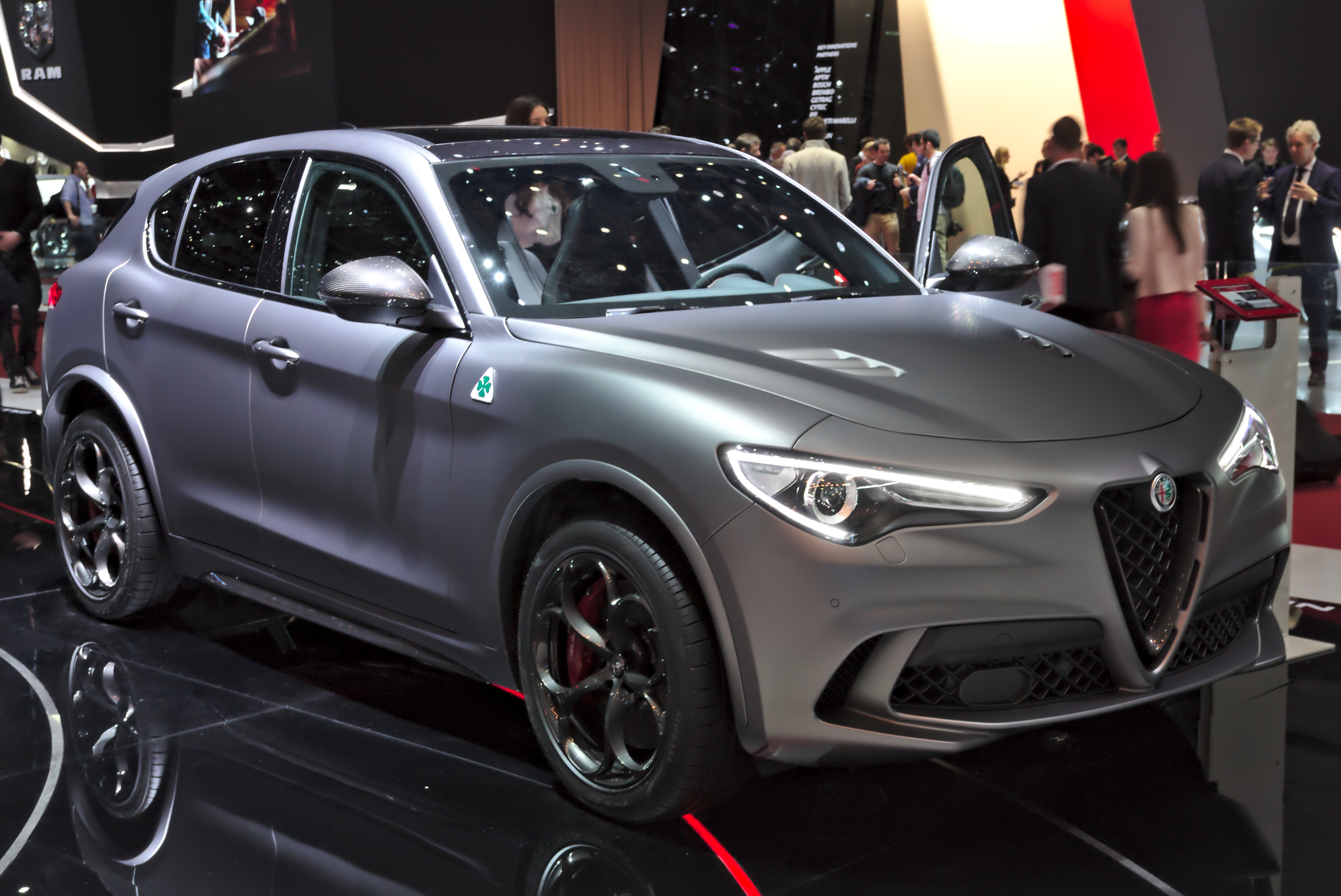 Alfa Romeo Stelvio QV Nring at Geneva Motorshow 2018